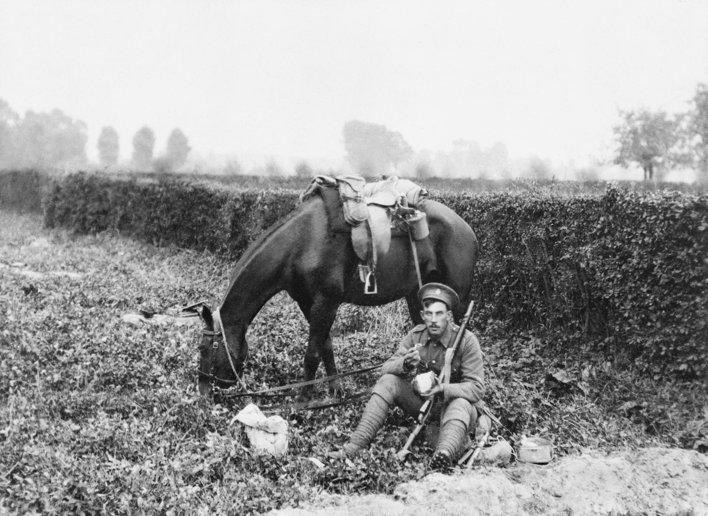 A British cavalryman eating beside his horse in Belgium on 13 October 1914.